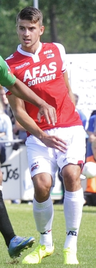 Wesley Hoedt